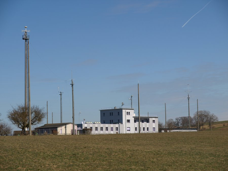 OFCOM Chatonnâye radio monitoring station, Switzerland